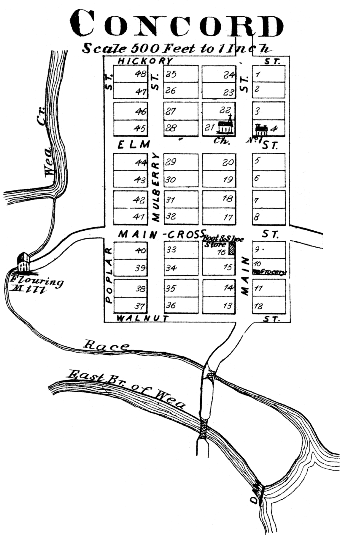 An 1878 map of the town of Concord in Tippecanoe County, Indiana.